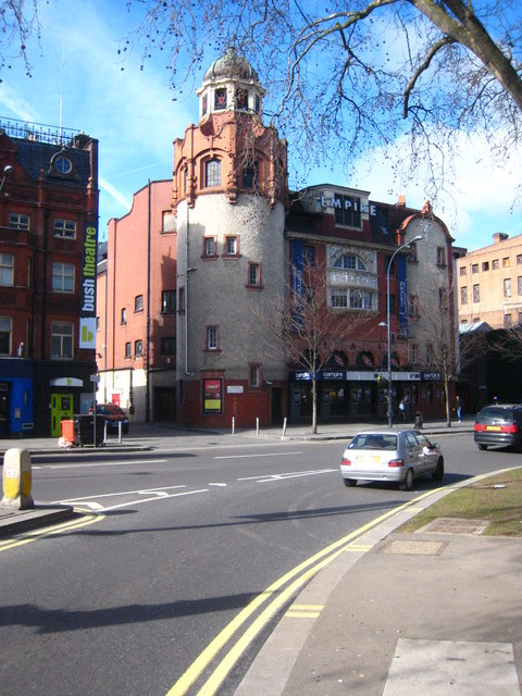 Shepherd's Bush Empire Built in 1903 for impresario Oswald Stoll and designed by theatre architect Frank Matcham. The first performers at the new theatre were The Fred Karno Troupe incl. Charlie Chaplin (1906). The Empire staged music-hall entertainments, such as variety performances and revues, until the early 1950s. In 1953 it was sold to the BBC, which put it to use as a television studio–theatre, renaming it the BBC Television Theatre. This use ceased in 1991 and it is now a music venue known as the O2 Shepherd's Bush Empire.